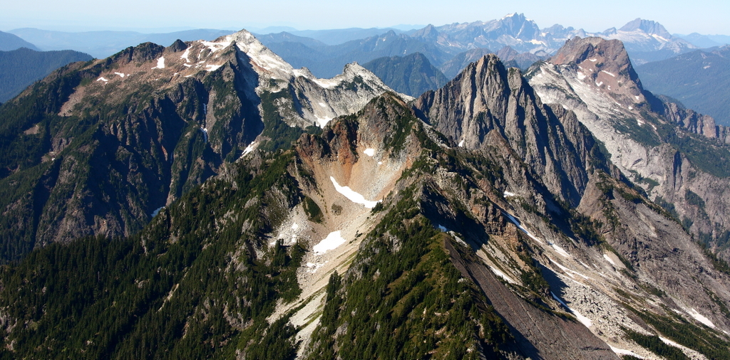 Gothic Basin and Del Campo Peak, September 14, 2008.